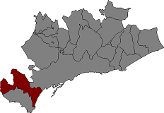 Location of Vila-seca in Tarragonès